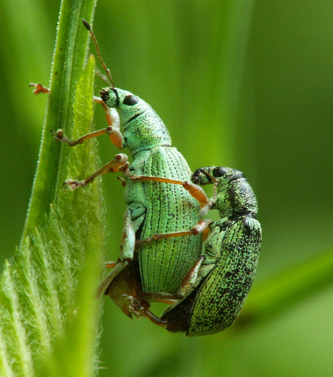 Phyllobius argentatus Polydrusus formosus mating, Utrecht the Netherlands